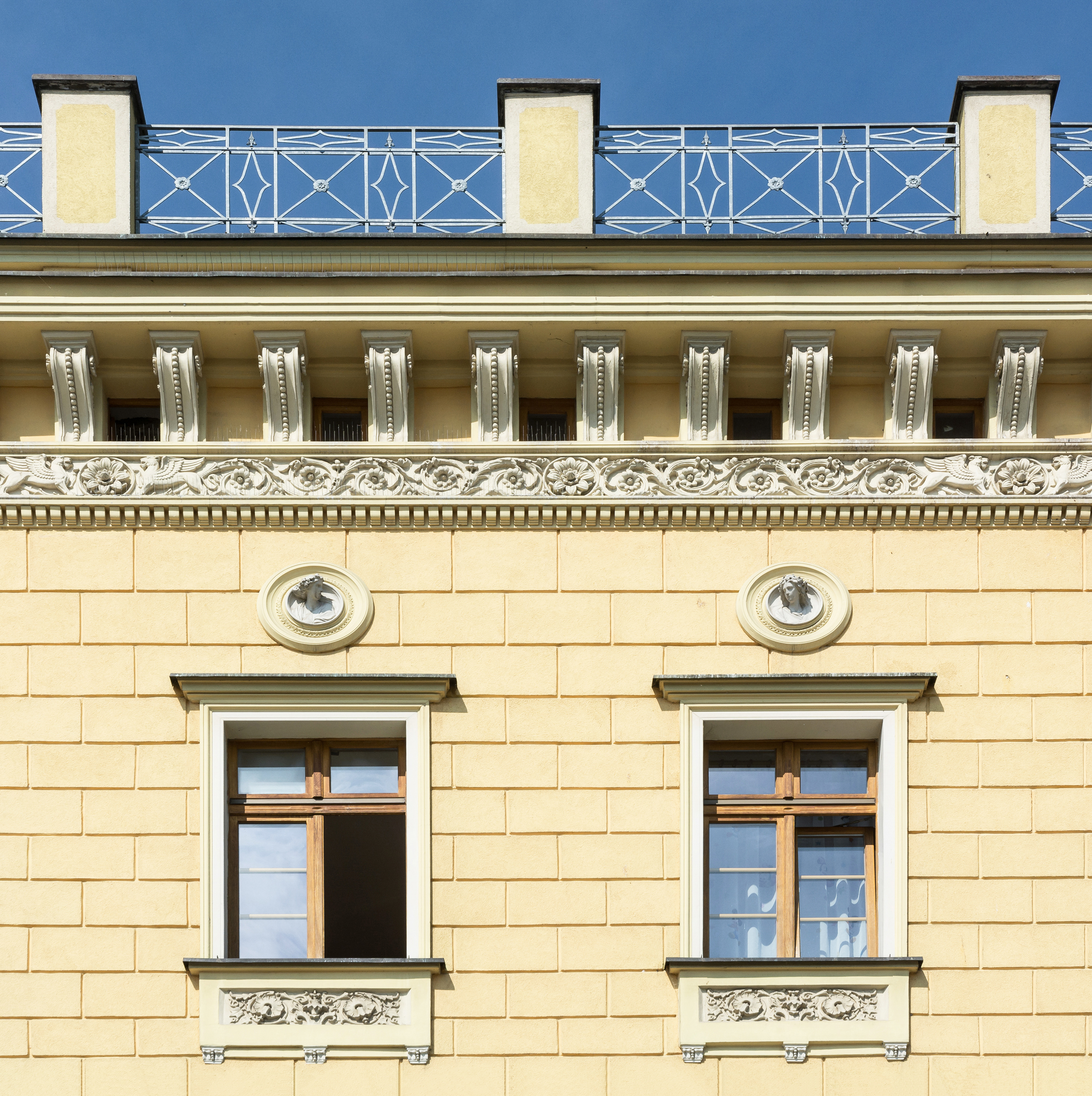 14 Market Square in Niemcza, corbels